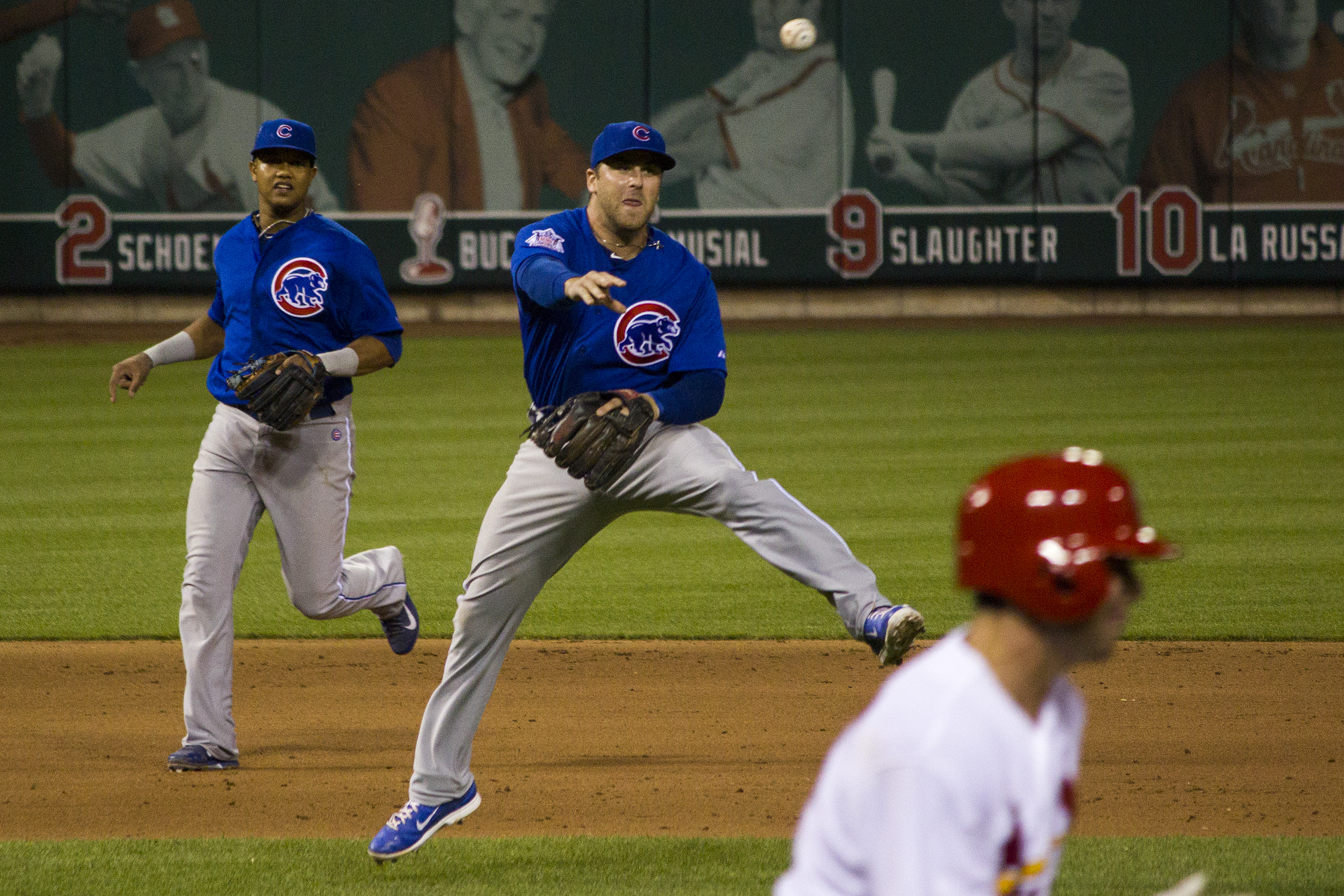 Mike Olt of the Chicago cubs 2014